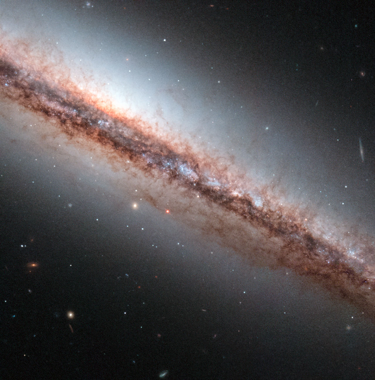 In this image the NASA/ESA Hubble Space Telescope takes a close look at the spiral galaxy NGC 4217, 60 million light-years away. The galaxy is seen almost perfectly edge on and is a perfect candidate for studying the nature of extraplanar dust structures — the patterns of gas and dust above and below the plane on the galaxy, seen here as brown wisps coming off NGC 4217. These tentacle-like filaments are visible in the Hubble image only because the contrast with their surroundings is so high. This implies that the structures are denser than their surroundings. The image shows dozens of dust structures some of which reach as far as 7000 light-years away from the central plane. Typically the structures have a length of about 1000 light-years and are about 400 light-years in width. Some of the dust filaments are round or irregular clouds, others are vertical columns, looplike structures or vertical cones. These structures can help astronomers to identify the mechanisms responsible for the ejection of gas and dust from the galactic plane of spiral galaxies and reveal information on the transport of the interstellar medium to large distances away from galactic discs. The properties of the observed dust structures in NGC 4217 suggest that the gas and dust was driven out of the midplane of the galaxy by powerful stellar winds resulting from supernovae — explosions that mark the deaths of massive stars. This image was entered into the Hubble Hidden Treasures competition by contestant Ralf Schoofs.